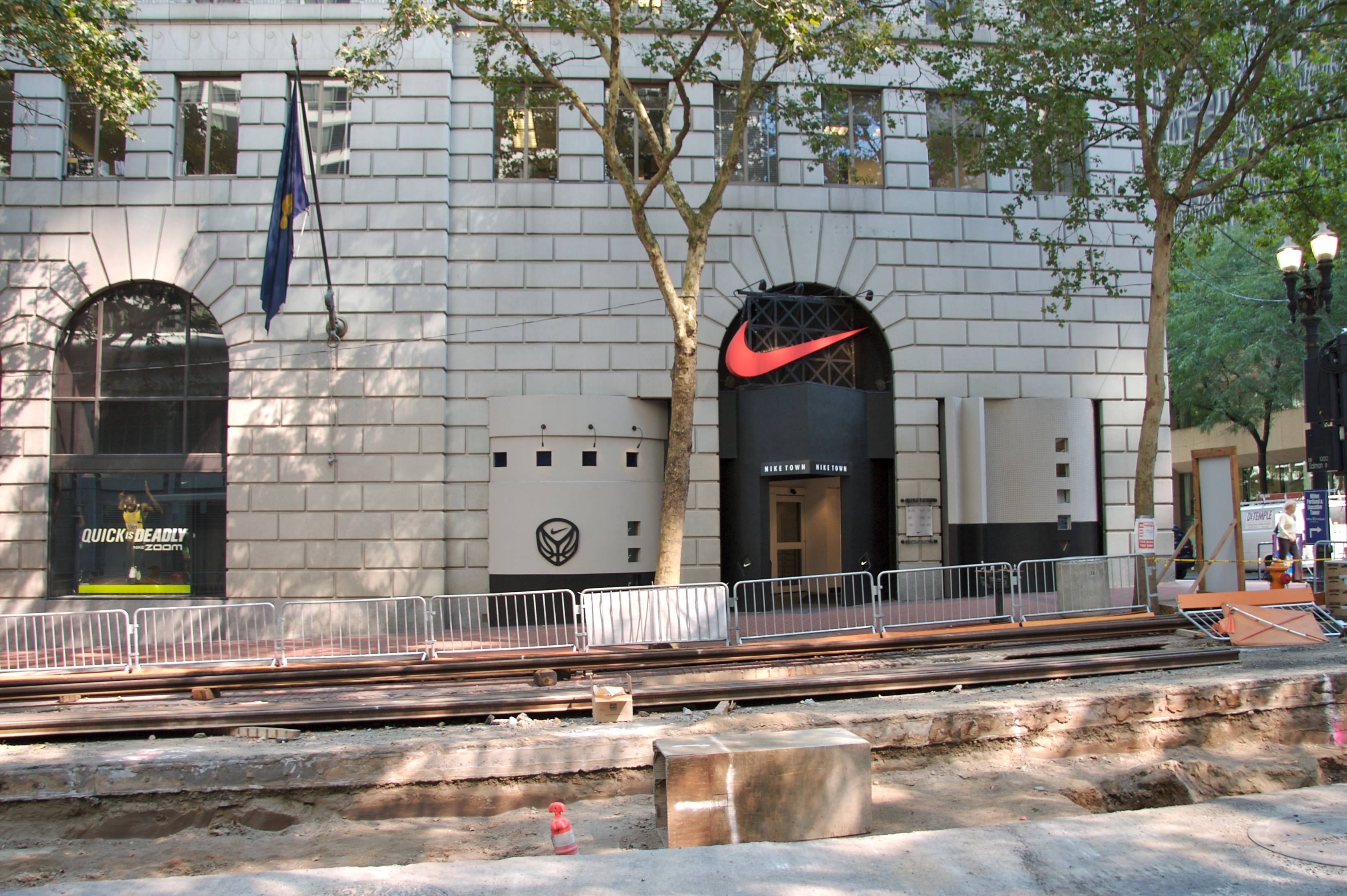 The original Niketown store, at 6th and Salmon, in the Public Service Building, in downtown Portland, Oregon, with reconstruction of the Portland Transit Mall (to add MAX light rail tracks) in the foreground. This very first Niketown opened in 1990 and closed in 2011, moving to a different location in downtown Portland.